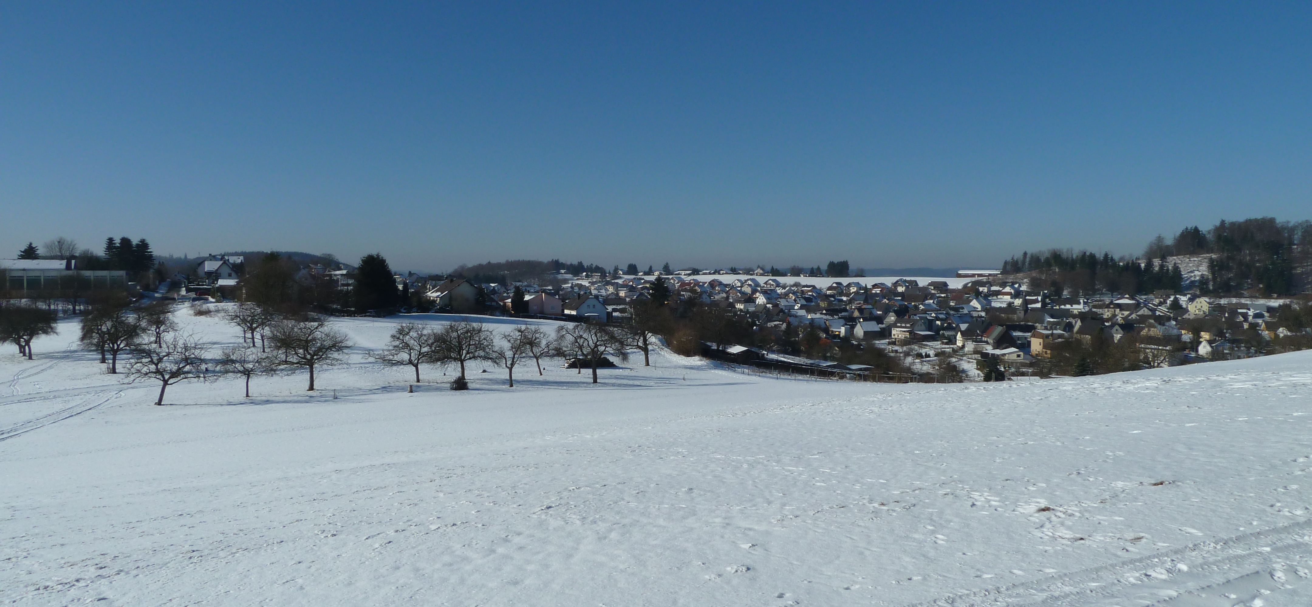 Eschenburg-Hirzenhain, Germany